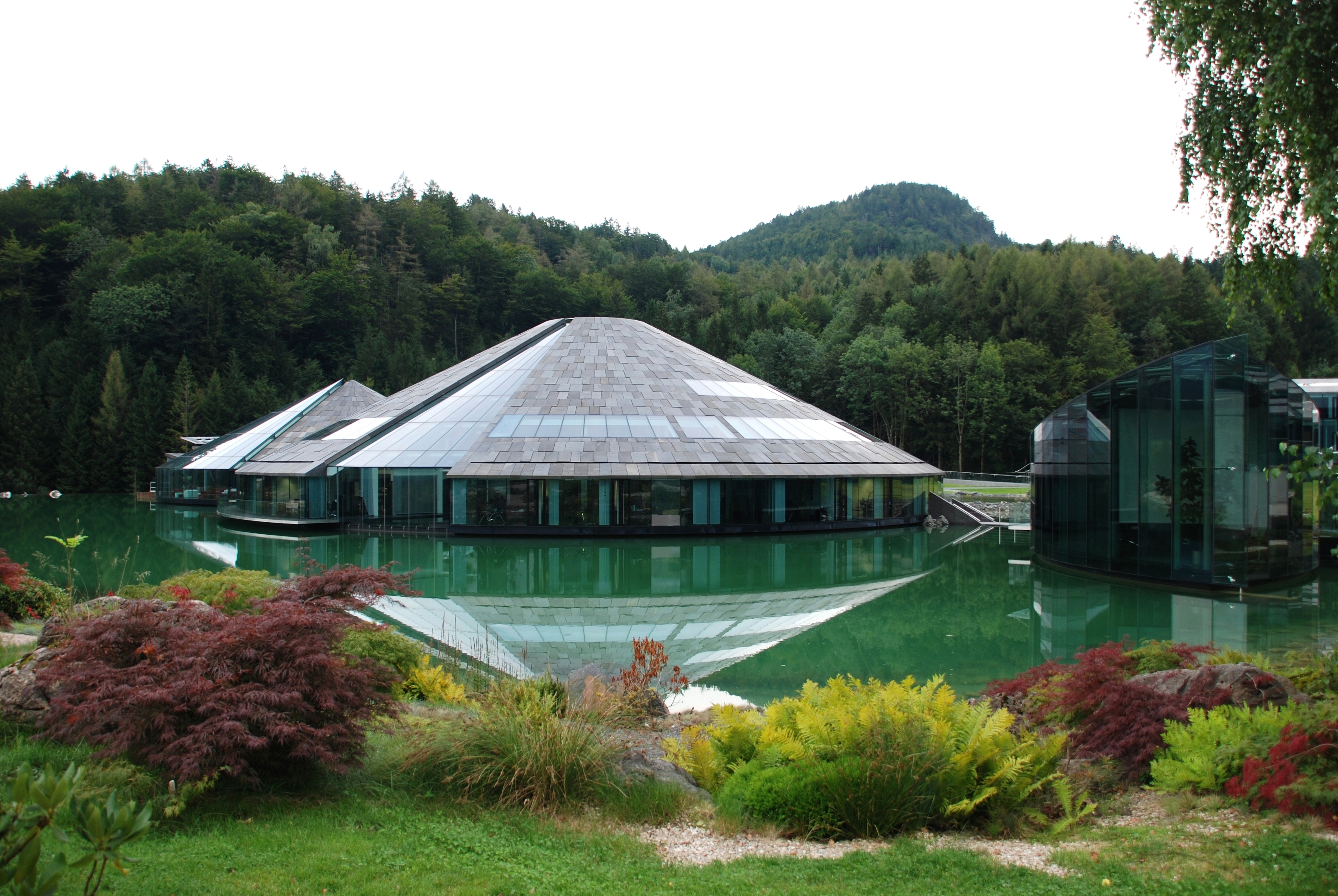 Red Bull headquarters in Fuschl am See, Austria. artistic design by Austrian sculptor Jos Pirkner.